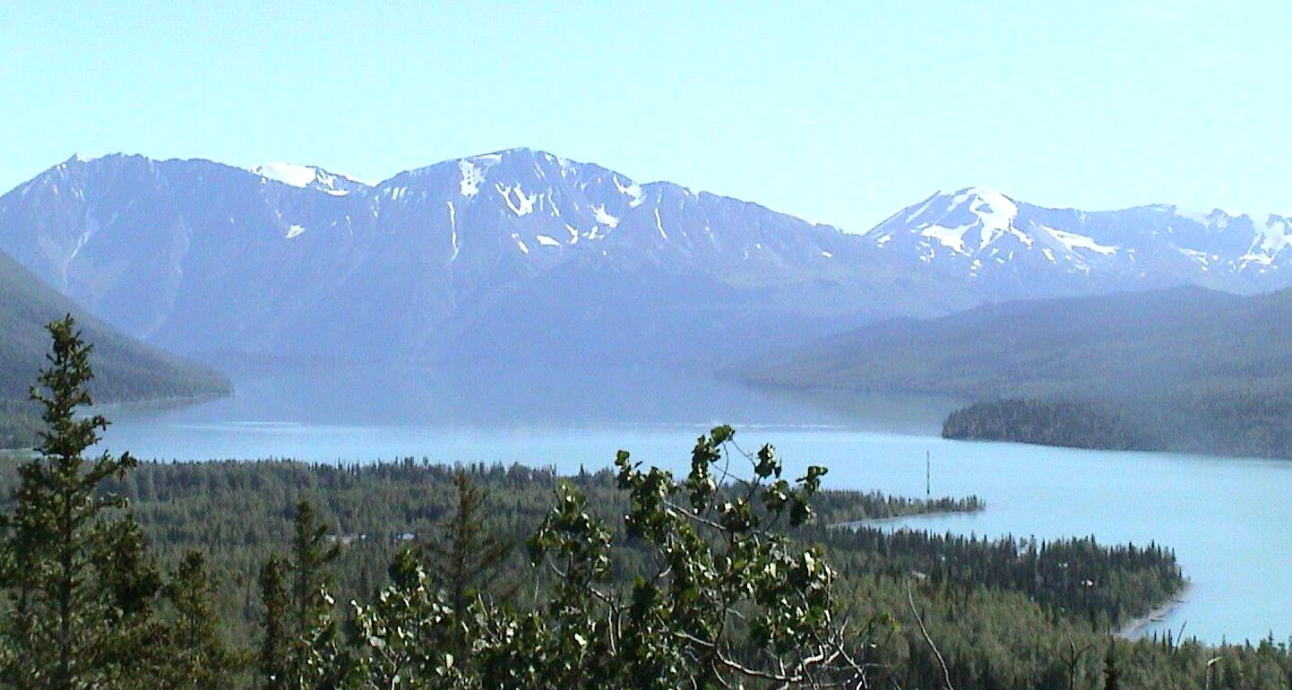 Picture of Kenai Lake in Alaska. I (Eric V. Blanchard) took this photo in August 2003. I permanently relinquish all rights to the work. Evb-wiki 05:14, 23 December 2006 (UTC)